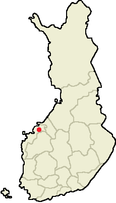 Locator maps of the former municipality of Jeppo, Finland